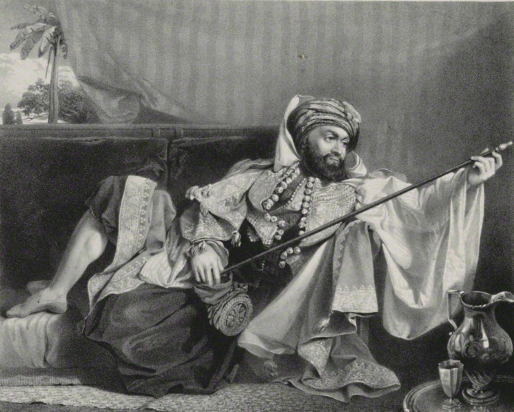 "Captain G. F. Lyon, in his Tripoline costume". Printed by Charles Joseph Hullmandel